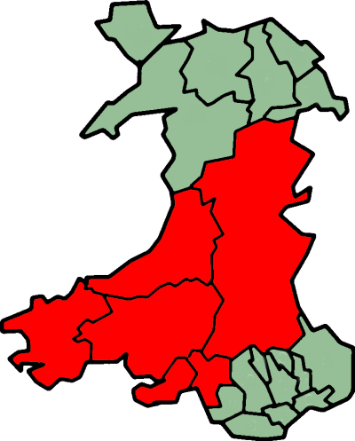 Self Made based upon :Image:WalesNumbered.png